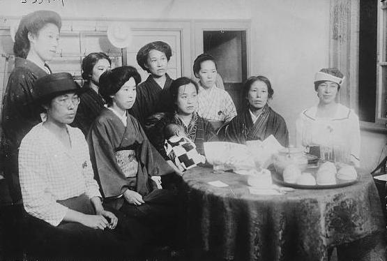 Women's Rights Meeting in Tokyo seeking universal suffrage